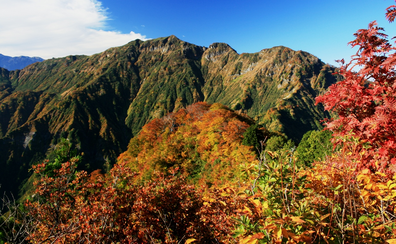 Mount Oizuru seen from Mount Mae-Oizuru in Ryōhaku Mountains, Japan.